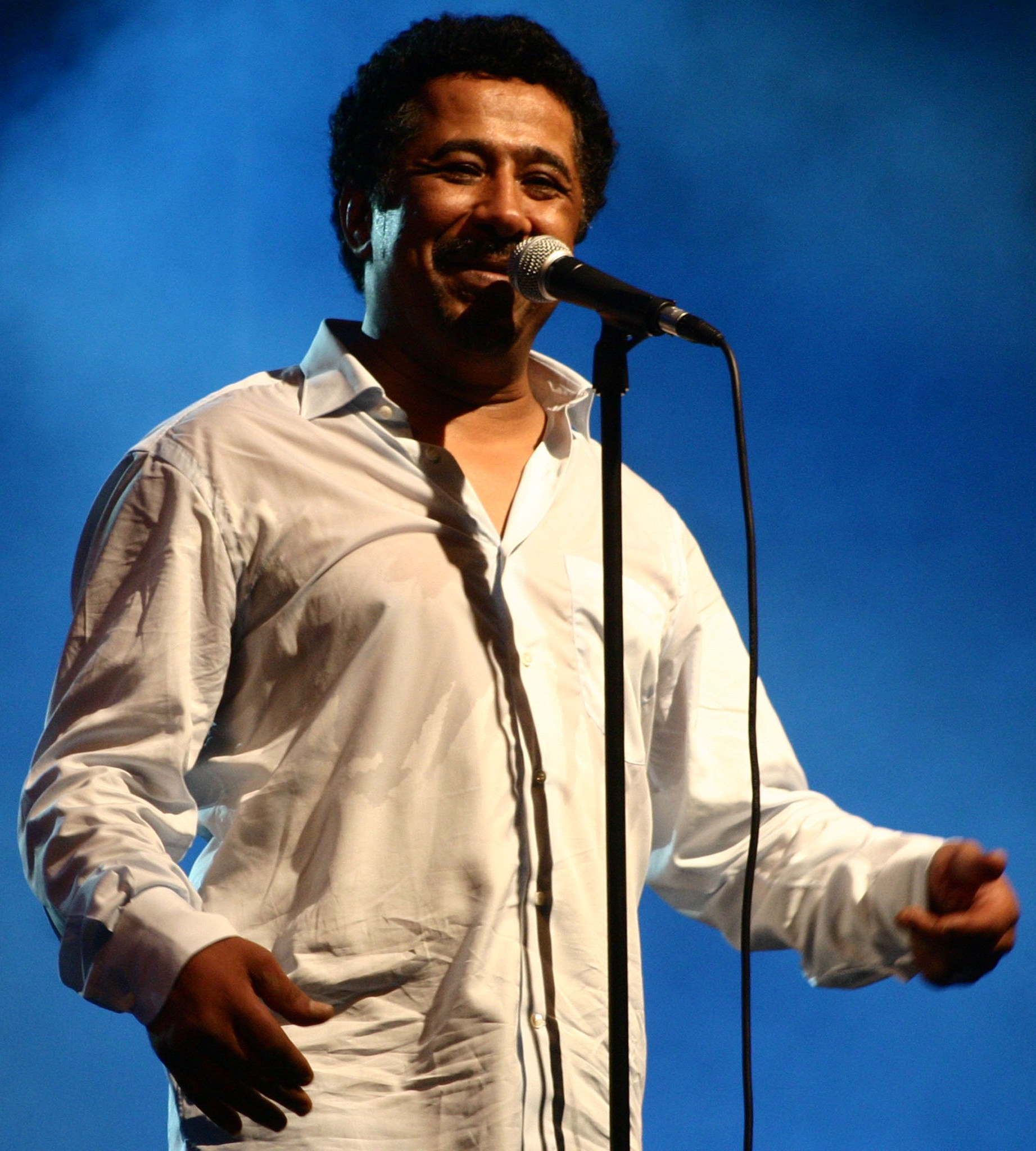 [Nazim Fethi] Cheb Khaled performed in Oran on July 5th. الشاب خالد أحيا حفلة موسيقية في وهران يوم الخامس من يوليو Cheb Khaled s'est produit à Oran le 5 juillet.